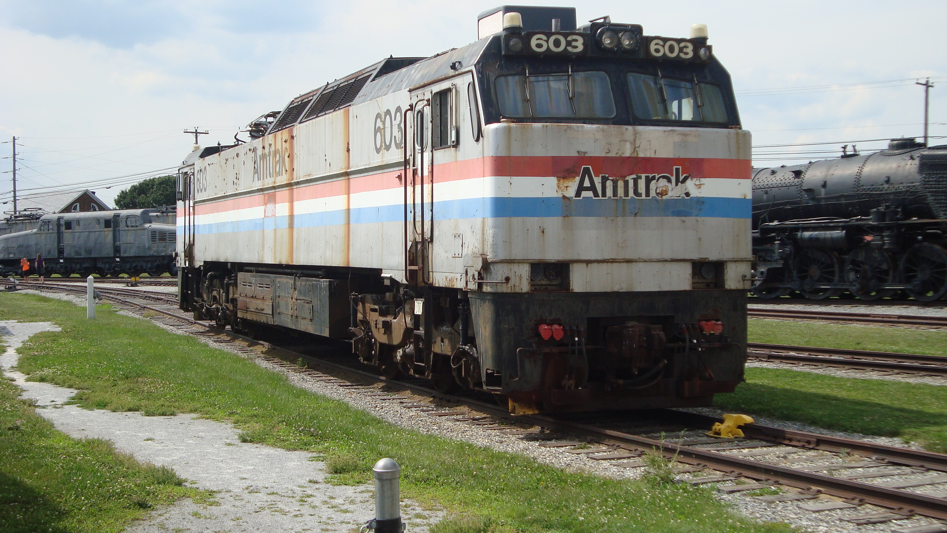 The last Amtrak E60